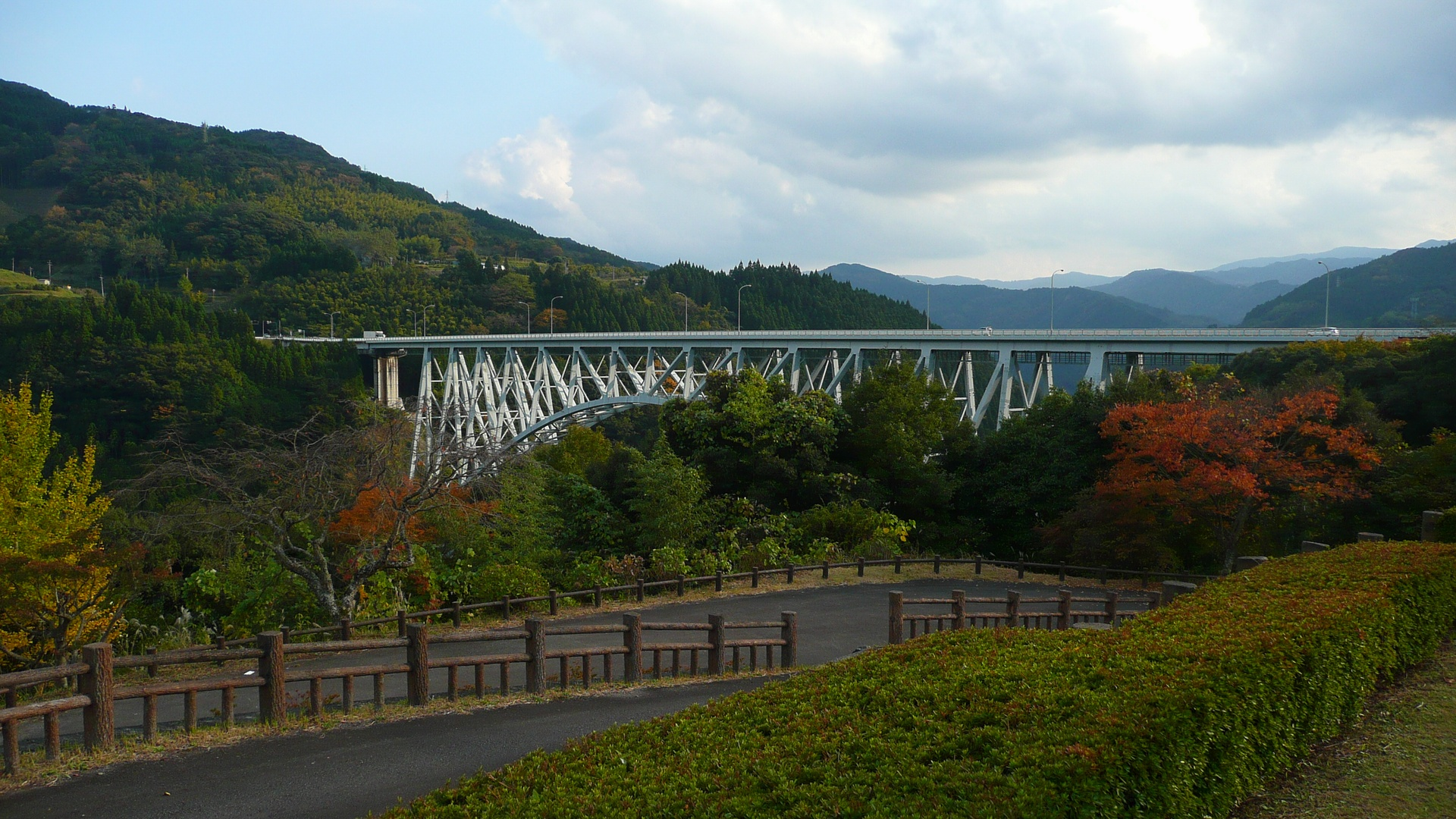 Seiun Bridge - National Route 218 (Hinokage Town, Miyazaki Prefecture, Japan)